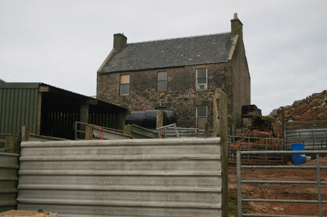 Ballychatrigan Farm, Islay A derelict farm on the Oa Peninsula.